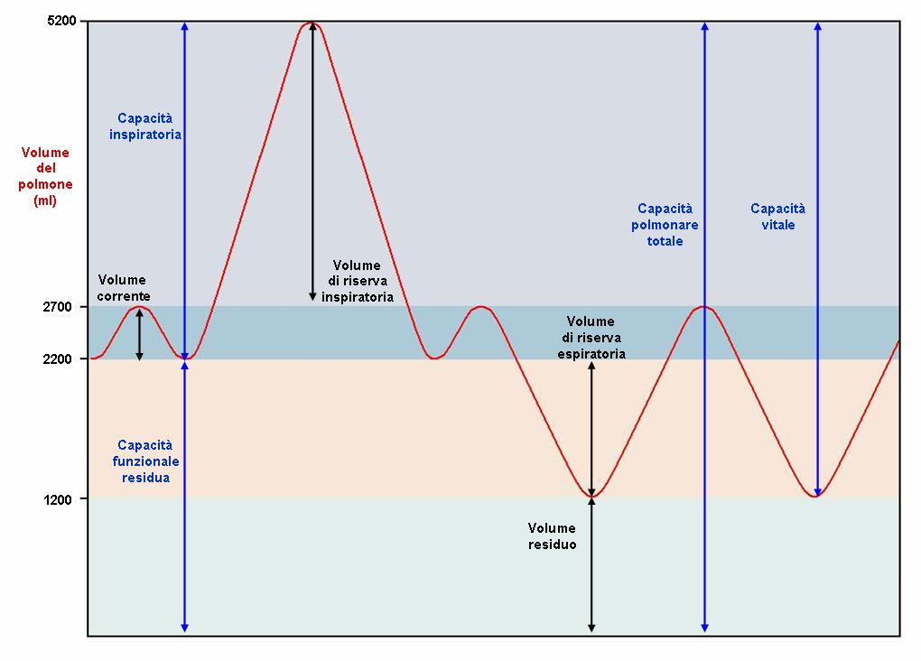 Respiratory volumes and capacities